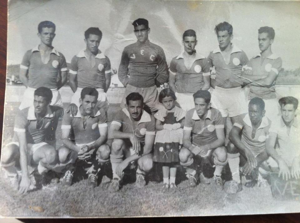 Vila Esporte Clube - 1958